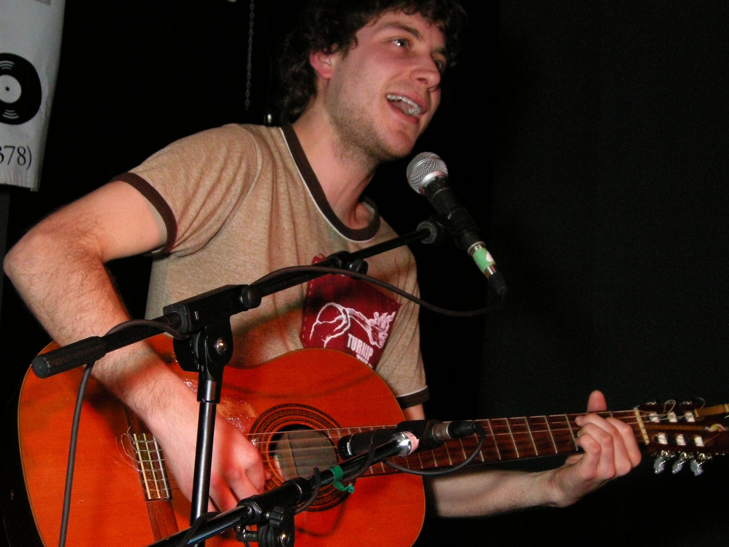 Canadian musician Richard Laviolette performing live.